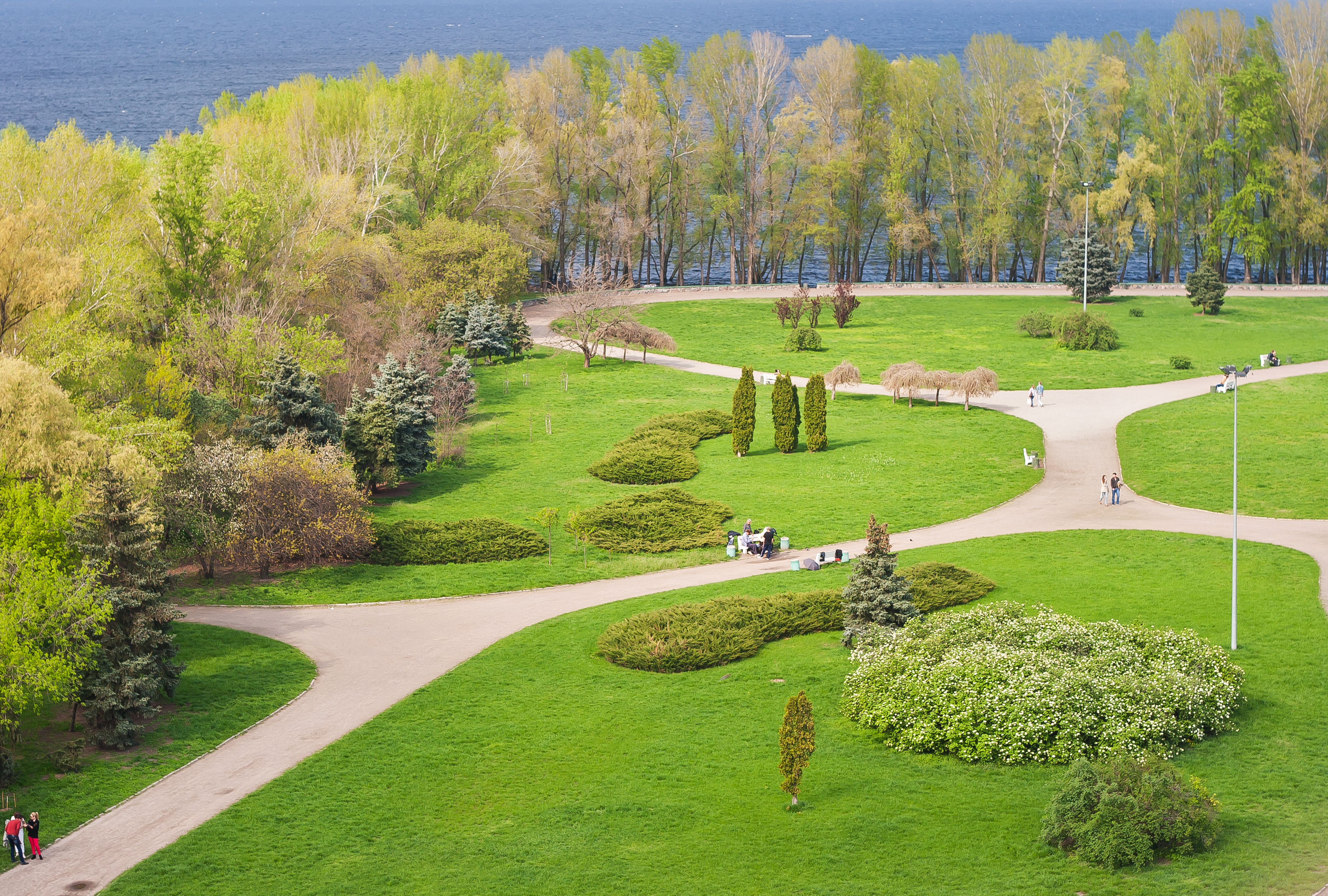 View from Hill of Glory into Valley of Roses